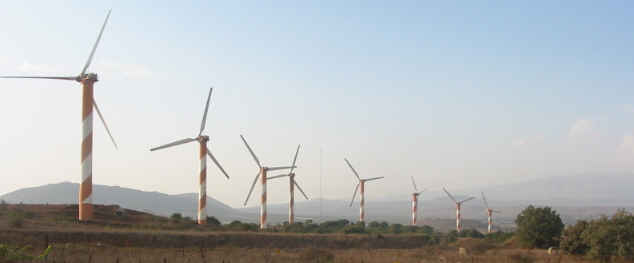 wind turbines near Alonei HaBashan